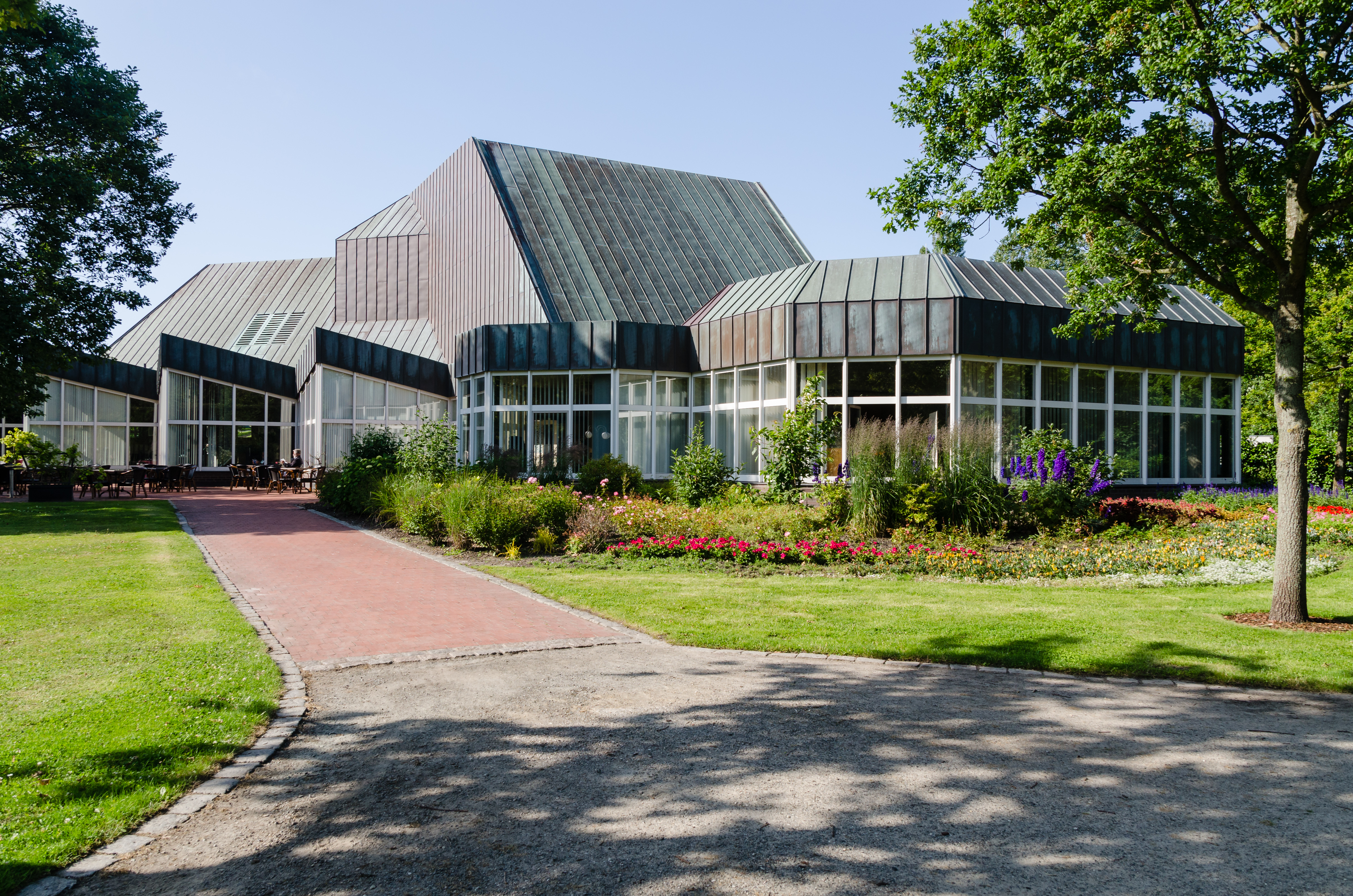 Spa Hotel Döse